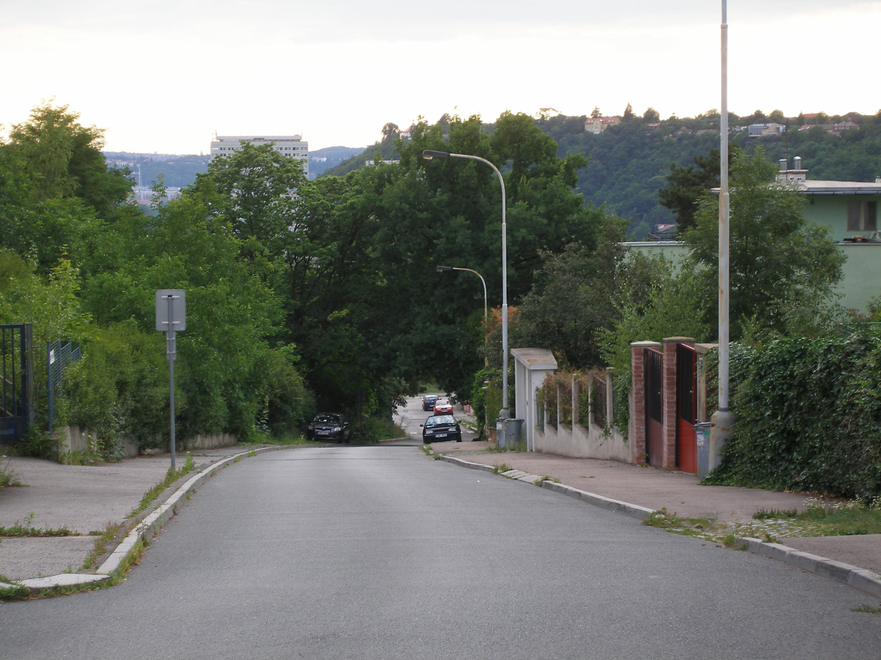 The west view of Na Truhlářce street.